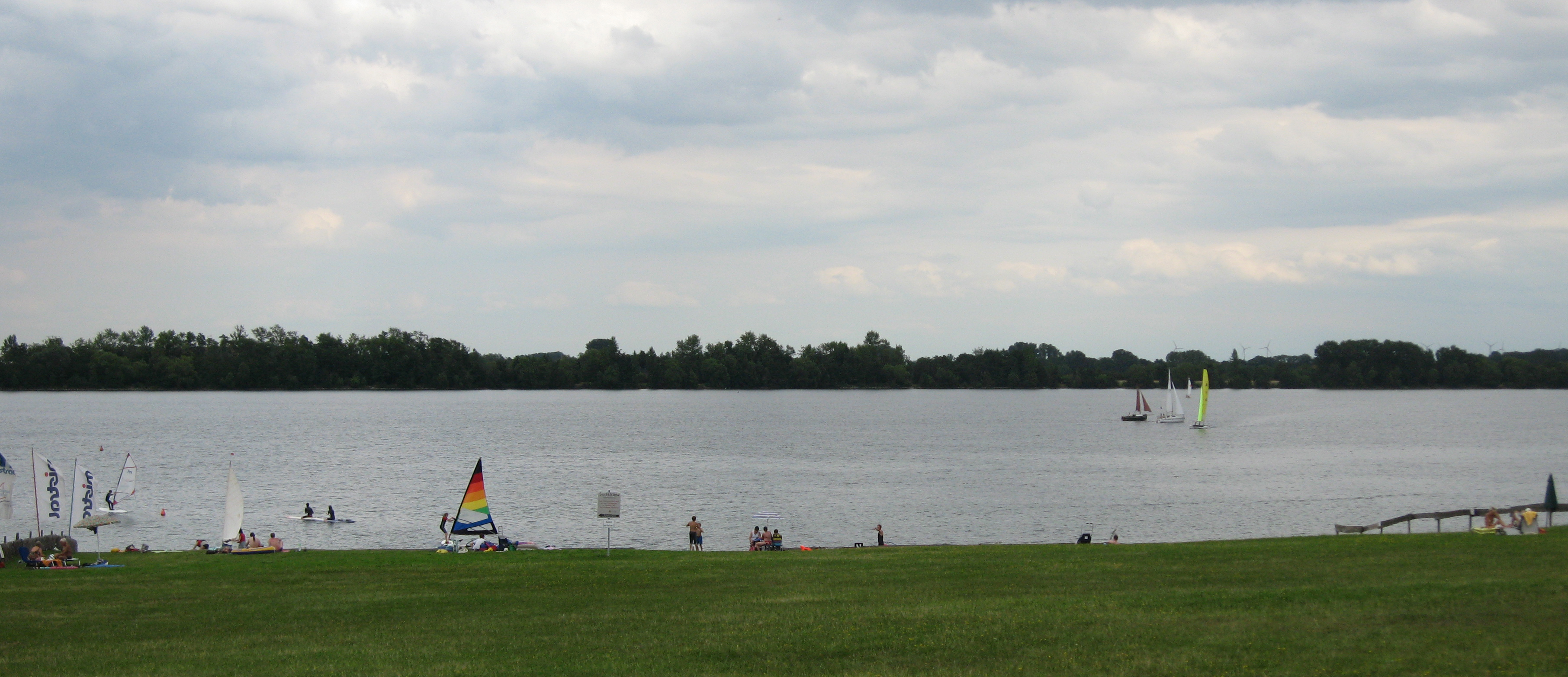 The Zülpich water-sports lake, Germany